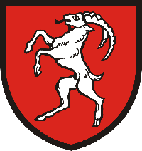 Coat of arms of Vissoie in Switzerland (Canton of Valais)